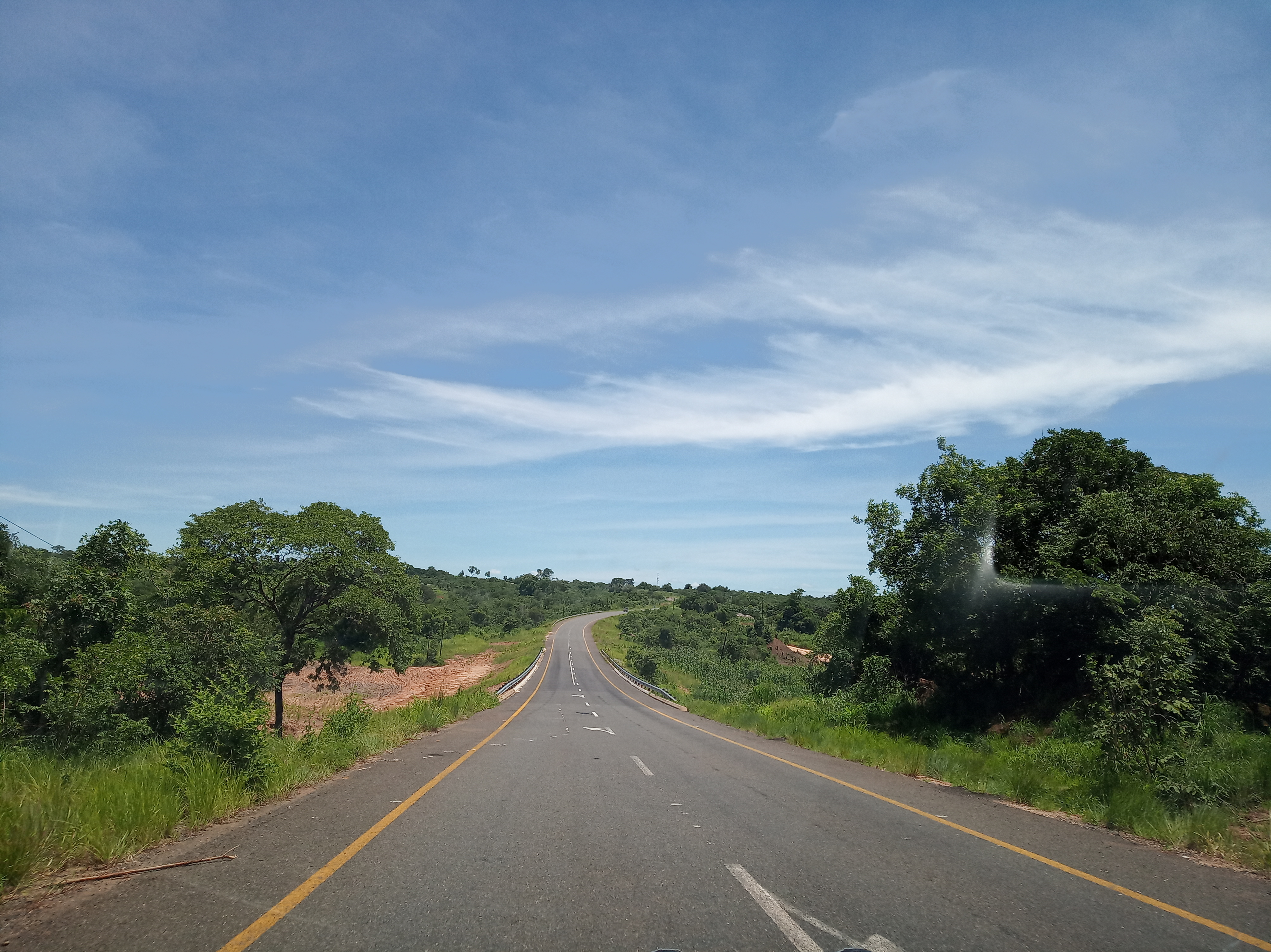 The road leading to the hope of the Africa's bright future. As bright as the scenery. This is an image with the theme "Africa on the Move or Transport" from: Mozambique